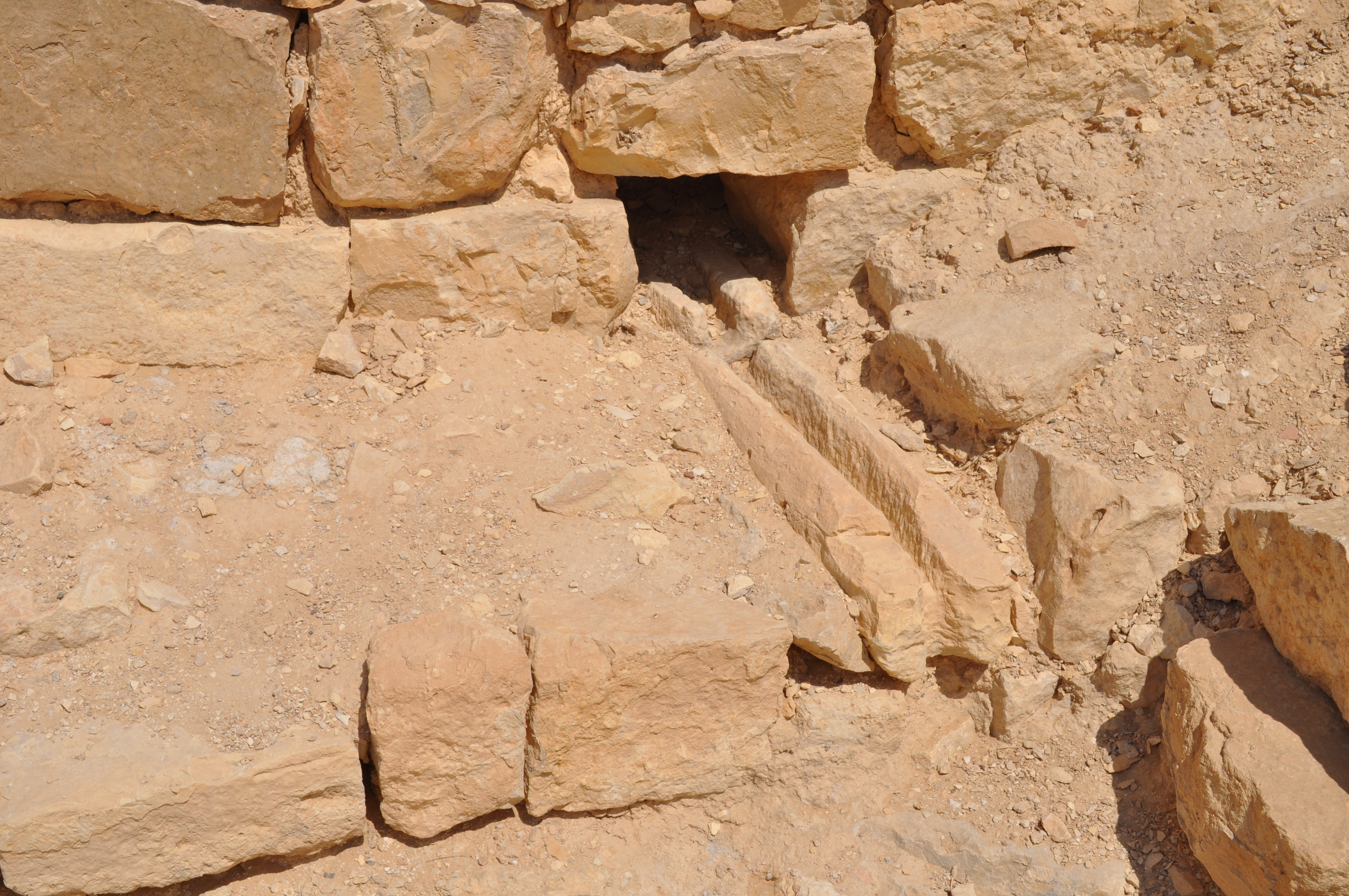 Shivta